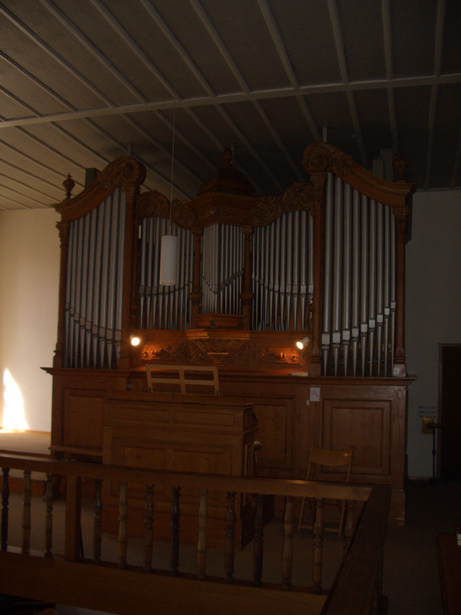 Protestant Church Tegernau, historic Organ by Merklin (1895)